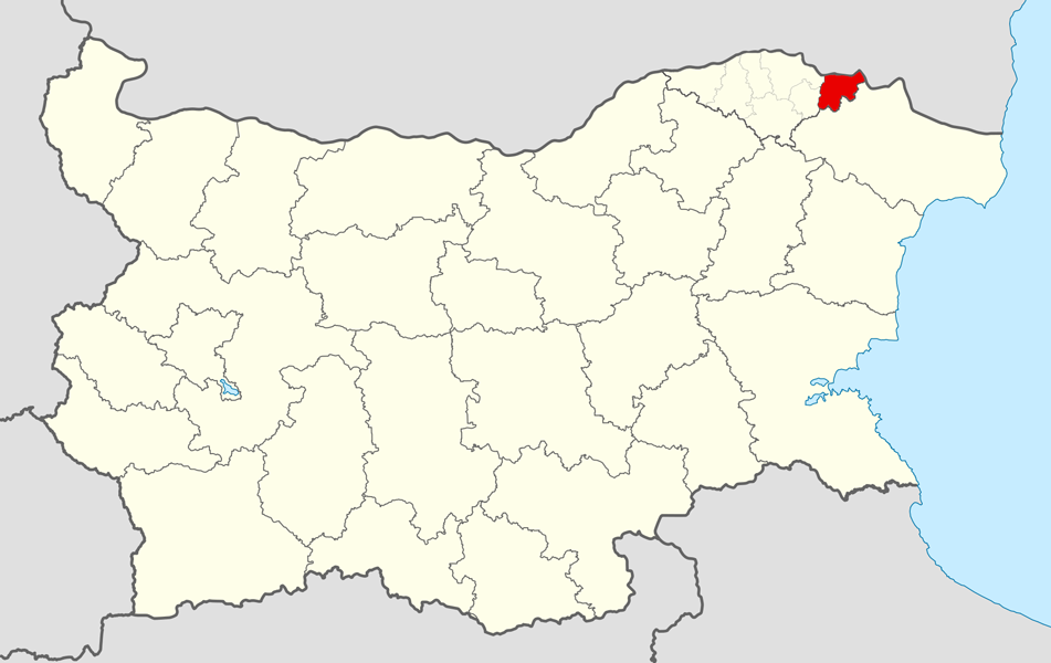 Location map of Kaynardzha Municipality within Bulgaria and Silistra Province. Equirectangular projection, N/S stretching 130 %. Geographic limits of the map: N: 44.4° N S: 41.1° N W: 22.1° E E: 28.9° E